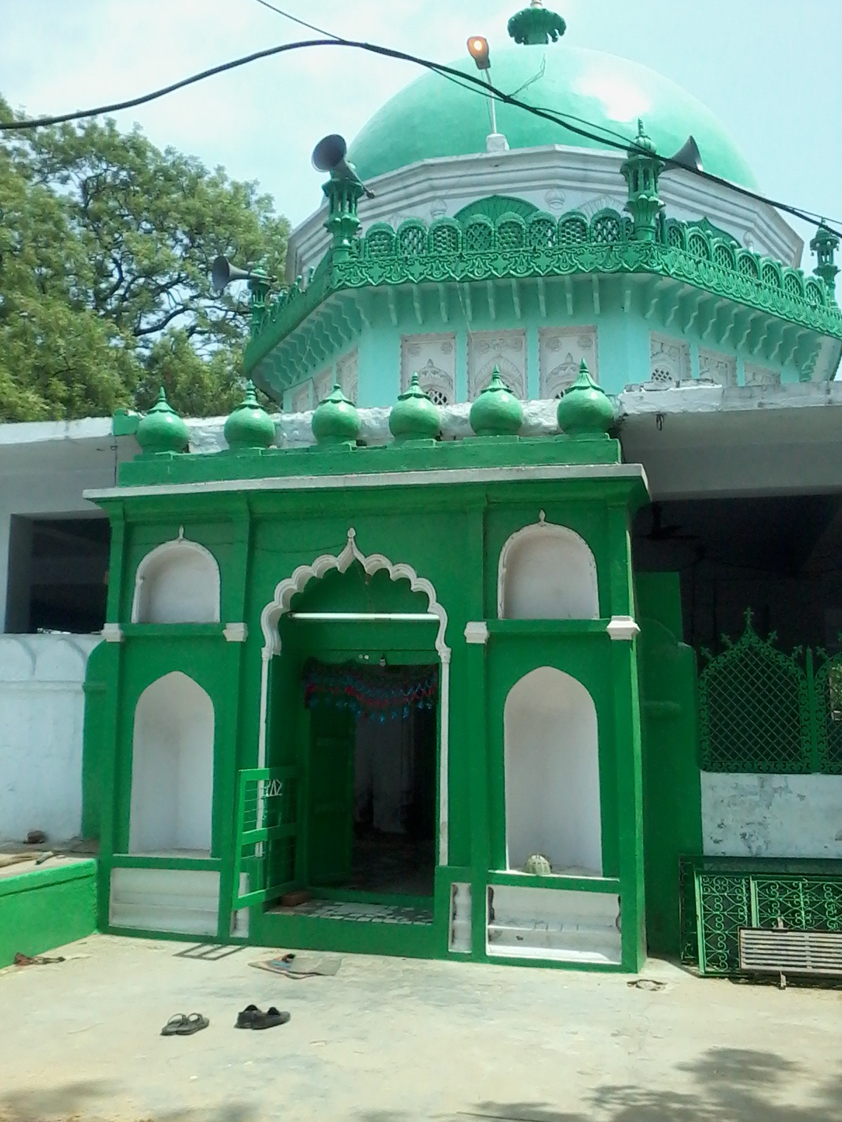 Front of Tomb of Ameermah Bahraich